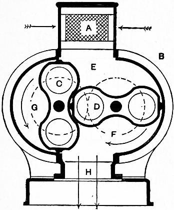 Thwaites’ improved Roots’ blower. Illustration from 1911 Encyclopædia Britannica, article Bellows and Blowing Machines